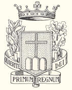 Theatine coat of arms, from a Italian book ,1900